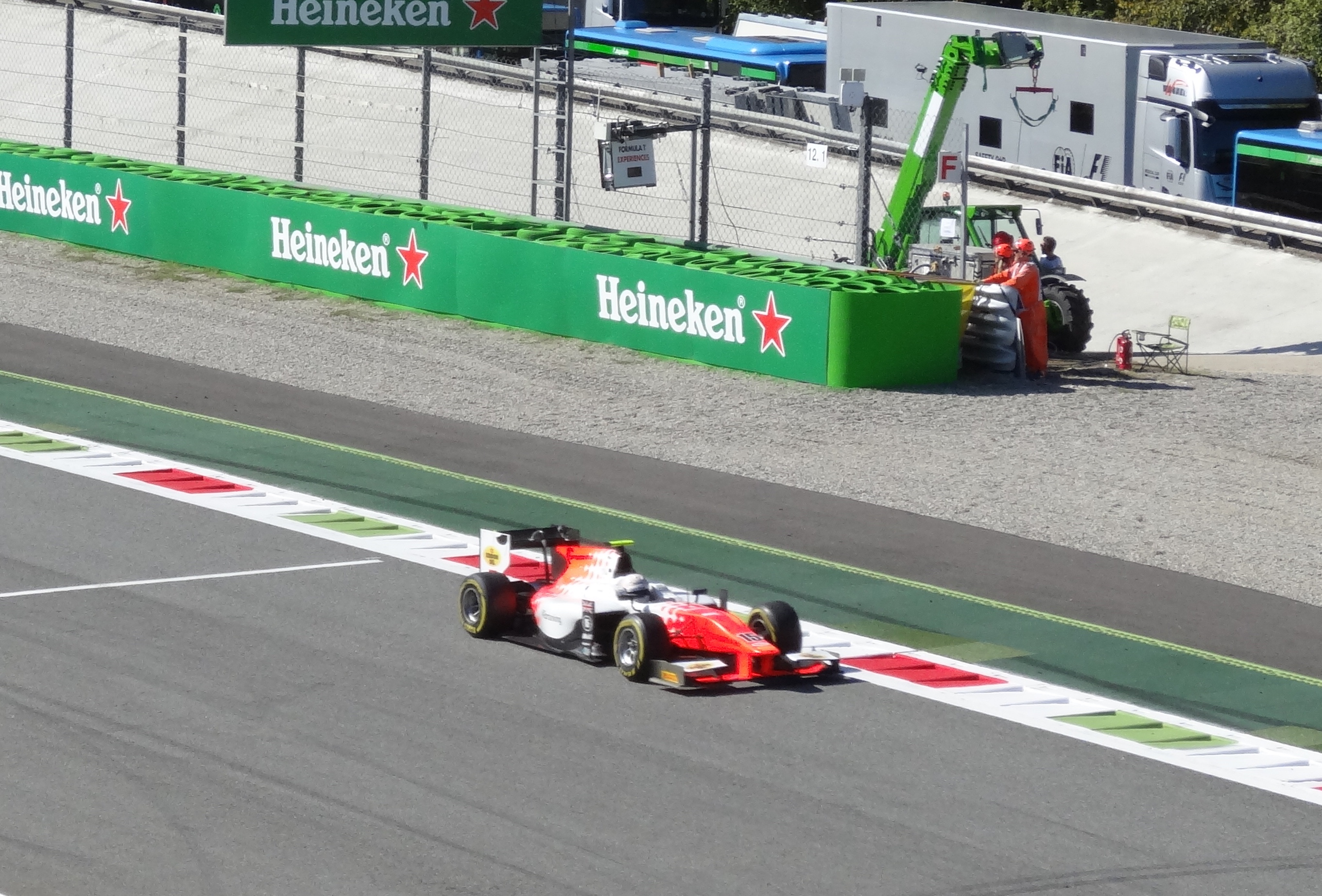 Jordan King Monza F2 2017